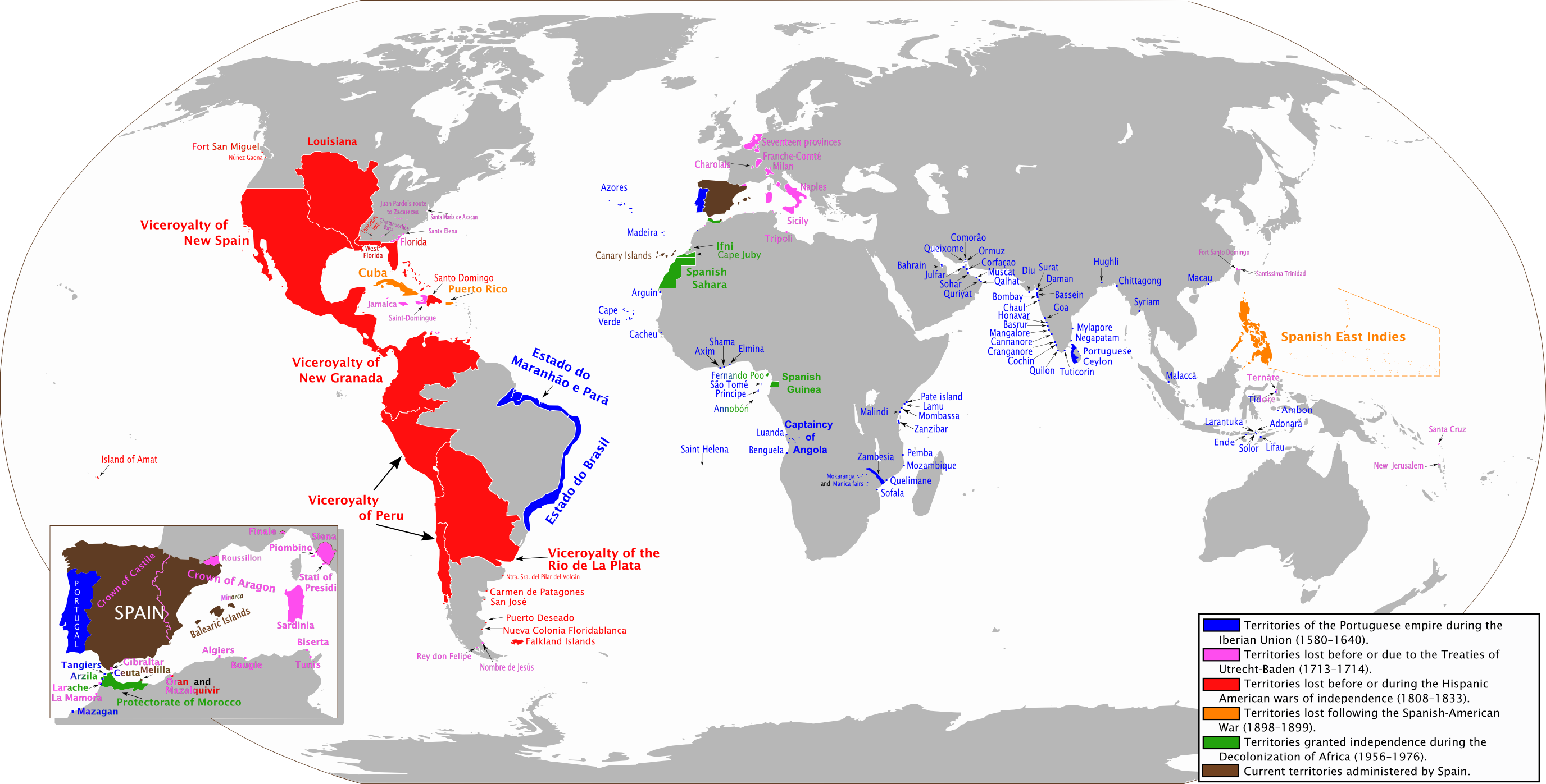 Anachronous map of the Spanish Empire Territories of the Portuguese empire during the Iberian Union (1580-1640) Territories lost before or due to the Treaties of Utrecht-Baden (1713–1714) Territories lost before or during the Spanish American wars of independence (1808-1833) Territories lost following the Spanish-American War (1898-1899) Territories granted independence during the Decolonization of Africa (1956-1976) Current territories administered by Spain